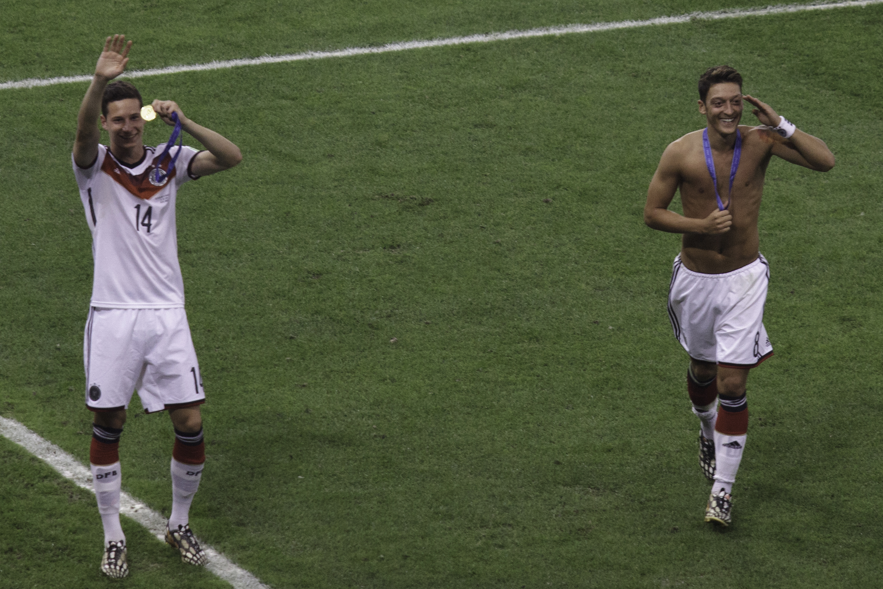 Julian Draxler & Mesut Özil celebrating winning the 2014 FIFA World Cup Final